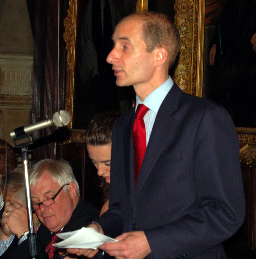 SOURCE: Flickr AUTHOR: Maarten (Superchango).